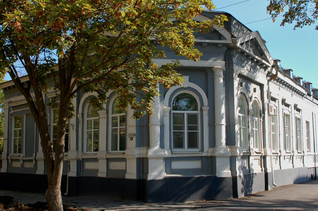 The mansion of Pfeilizer-Frank in downtown Taganrog